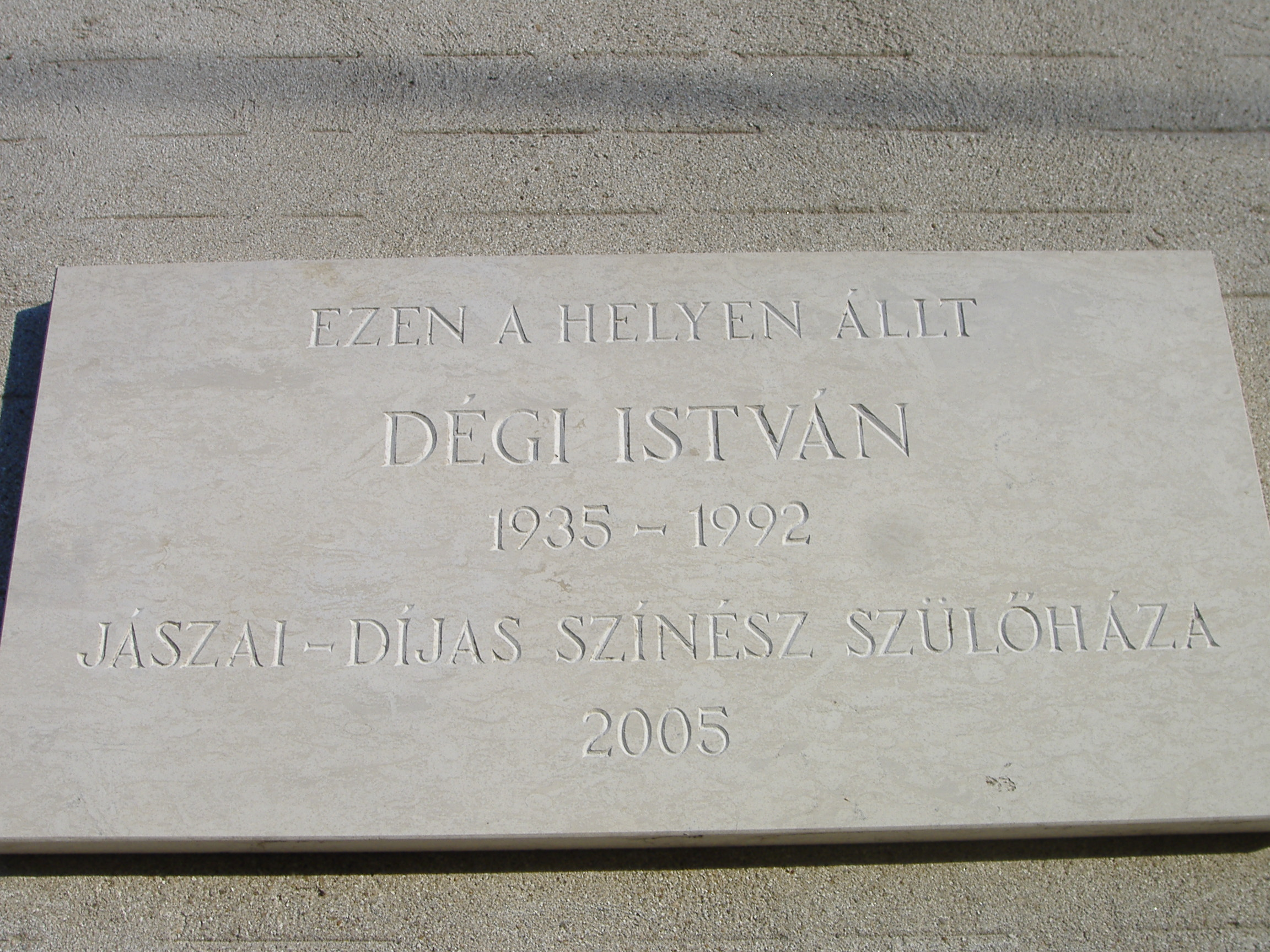 Memorial tablet in Makó, Hungary, commemorating to István Dégi, Hungarian actor who was born in the town.